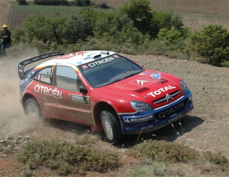 Sébastien Loeb driving a Citroën Xsara WRC at the 2005 Acropolis Rally.